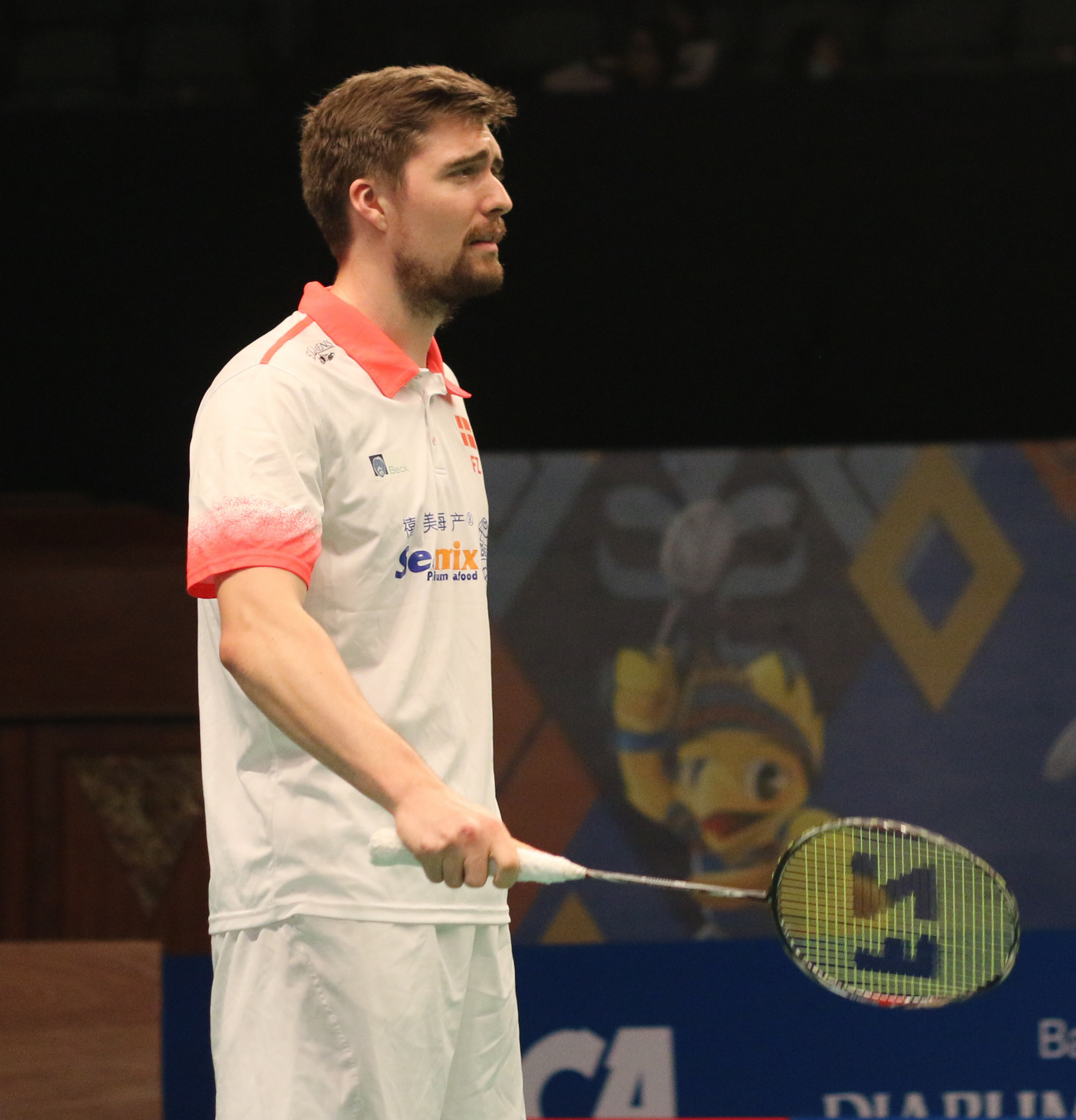 Mathias Christiansen at Indonesia Open 2017 badminton tournament